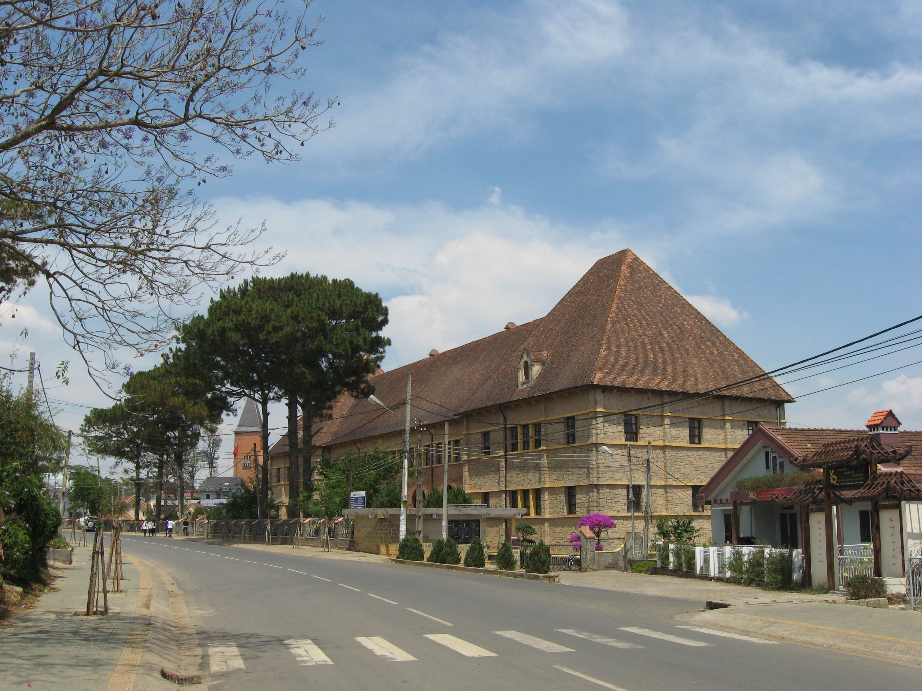 Da Lat Map Enterprise